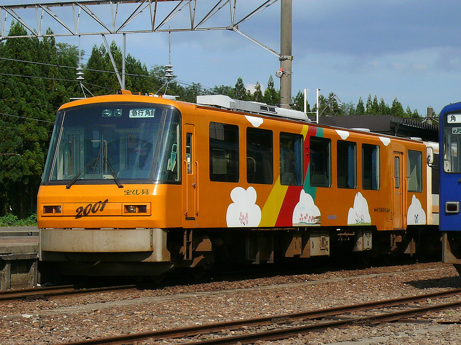 Akita Nairiku Jūkan Railway Type AN-2001 Diesel Car(Akita-prefecture,Japan).